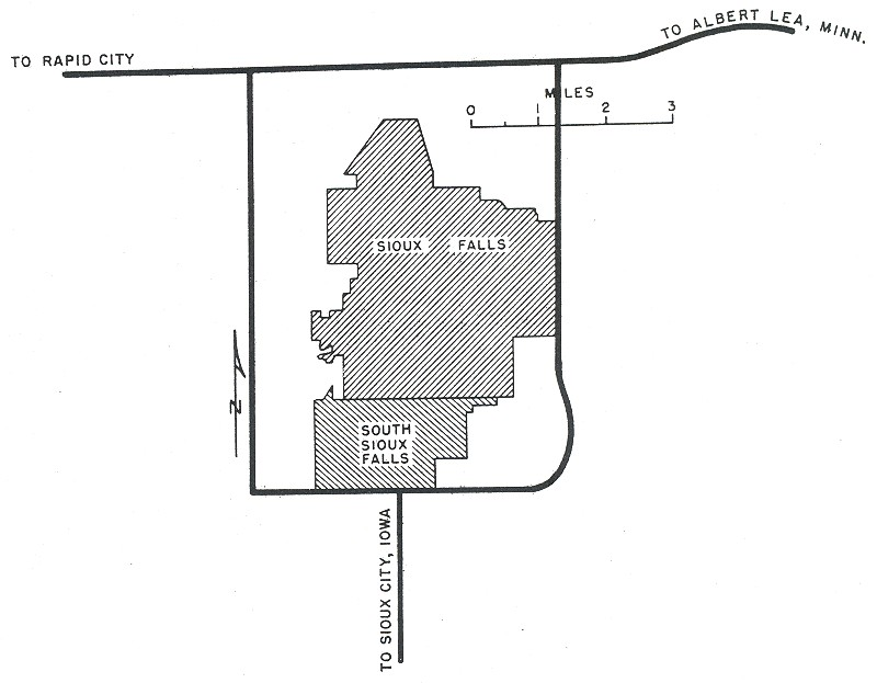 Interstates in today's terms I-29 (south of I-90) I-90 I-229